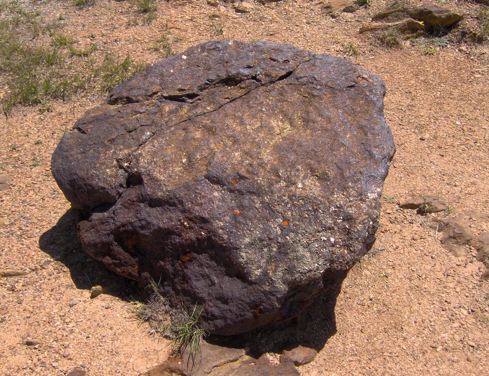 Copper ore at the Ducktown Basin Museum in Ducktown, Tennessee, in the southeastern United States.